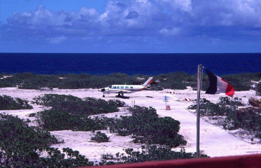 Plane on the airstrip of Tromelin, Indian Ocean.